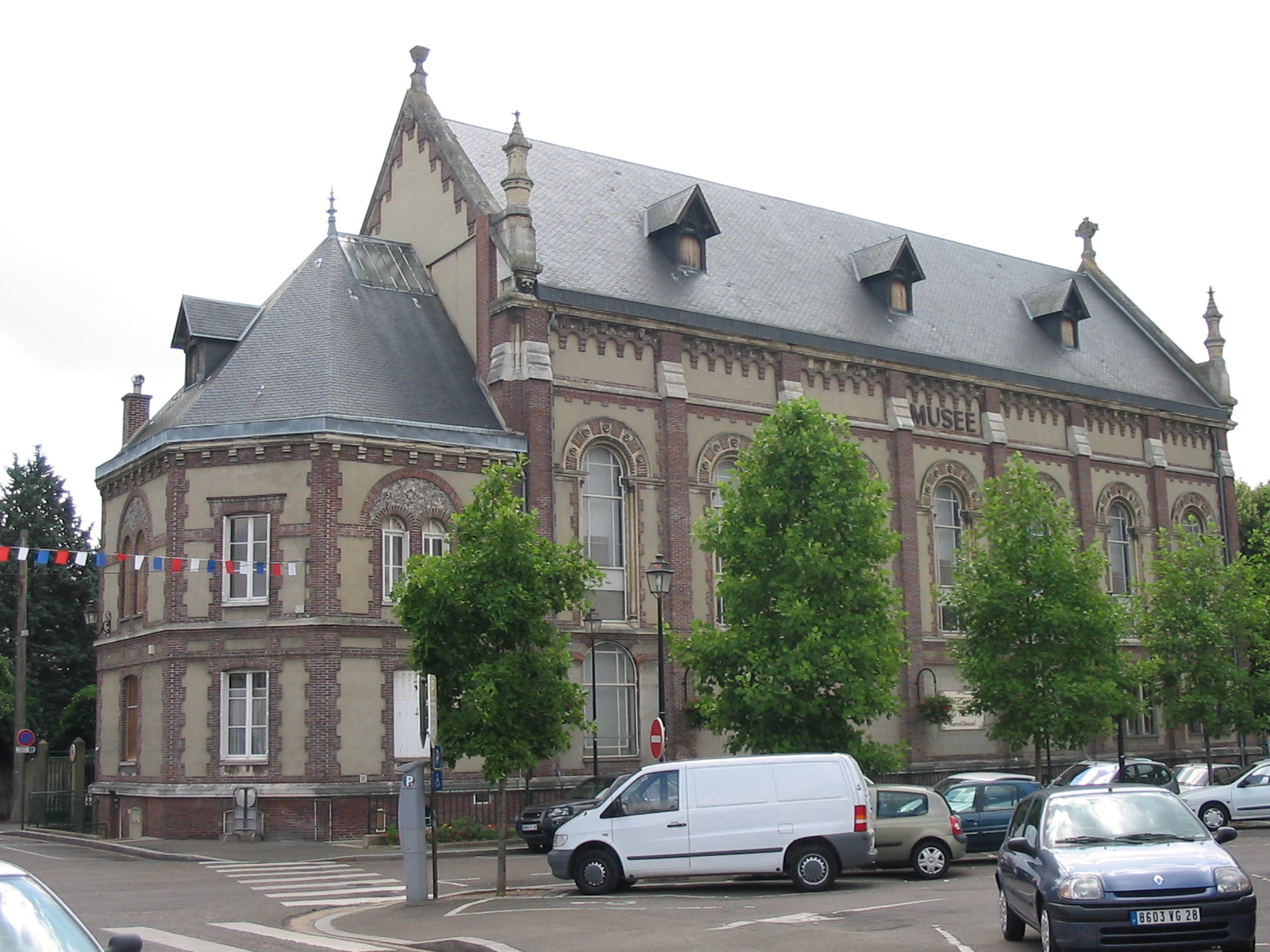 Marcel-Dessal municipal museum at Dreux